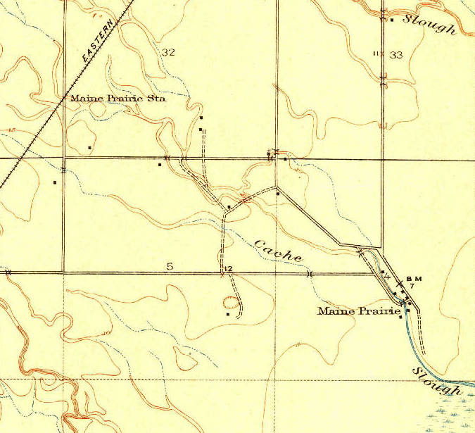 Maine Prairie, Calif in 1916